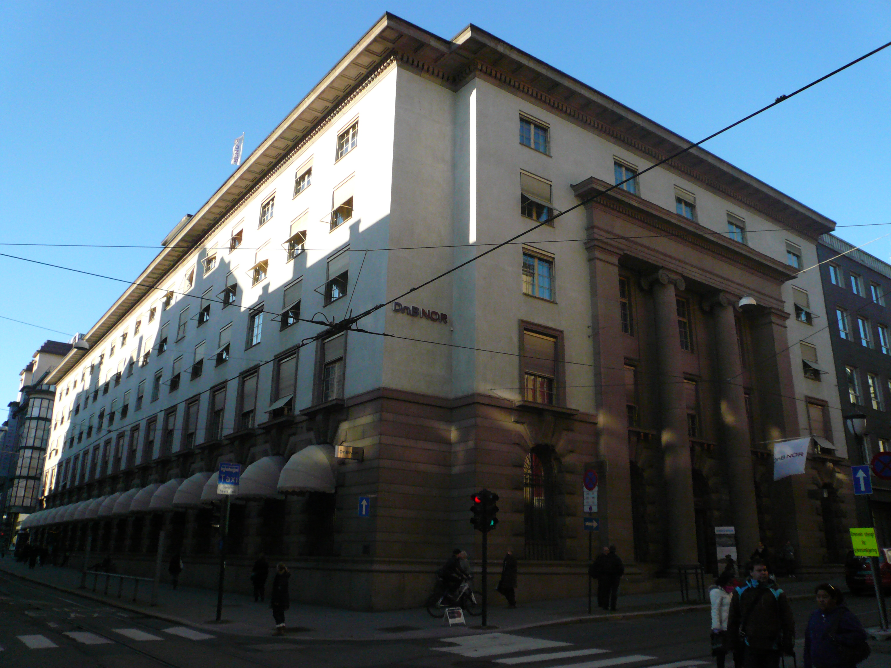 Den norske Creditbank, Kirkegata 21, Oslo, Norway. Architect Kristian Biong.